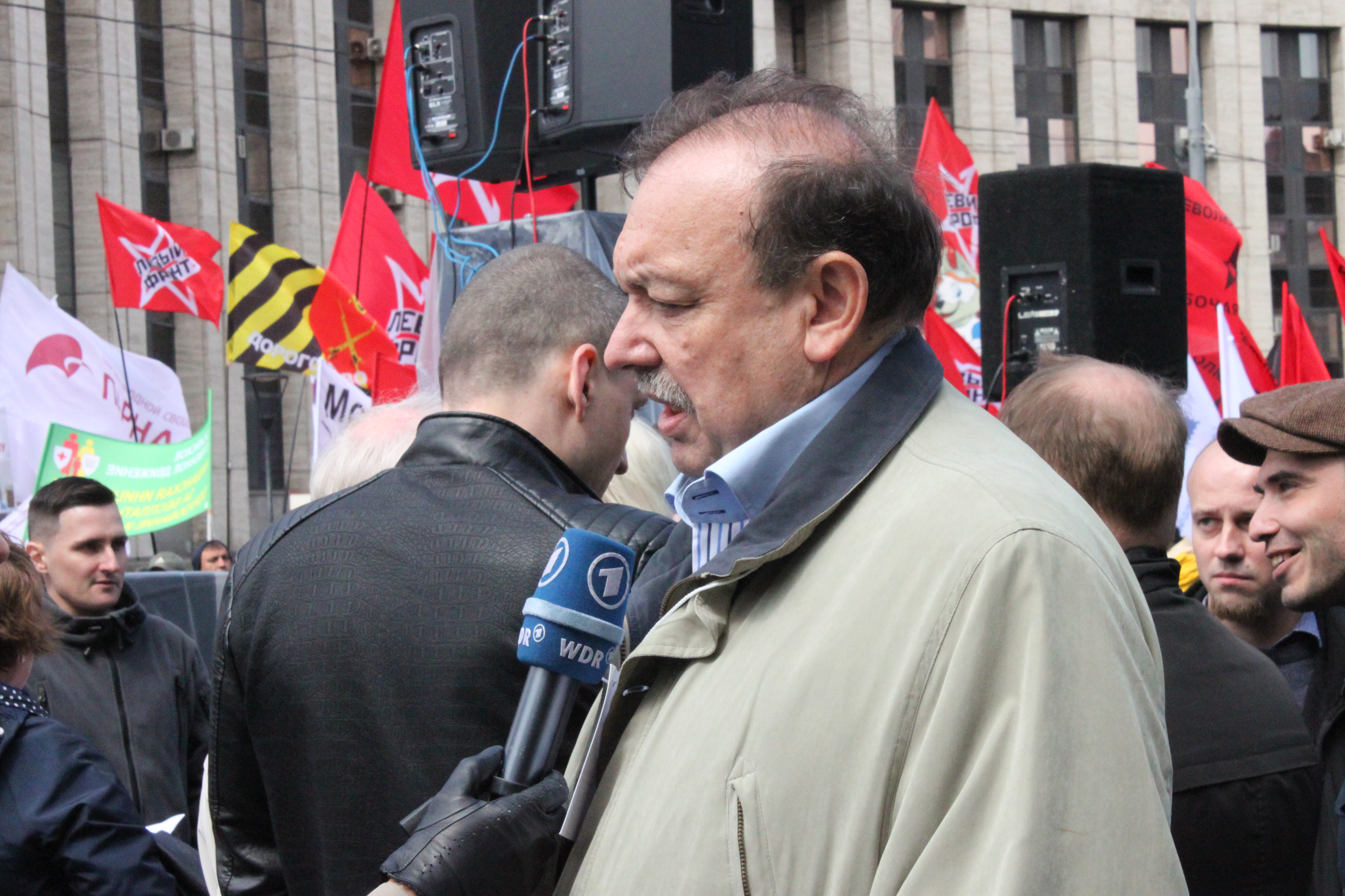 In Moscow on June 10 a rally "For a free Russia without repression and despotism" was held.